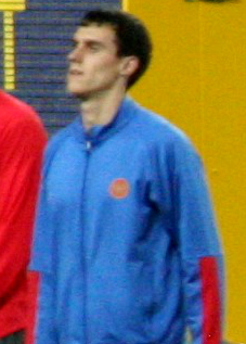 World Athletics Championships 2007 in Osaka - Line-up of the participants in the men*s pole vault final: Yevgeny Lukyanenko